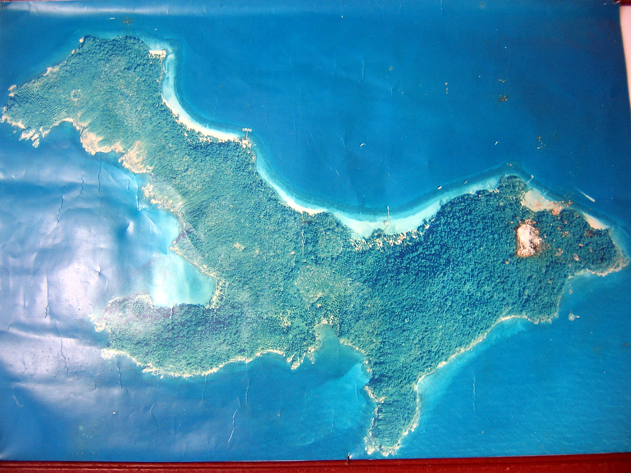 A photo of a sign on Ko Wai island in Moo Ko Chang Marine National Park, Trat Province, Thailand.